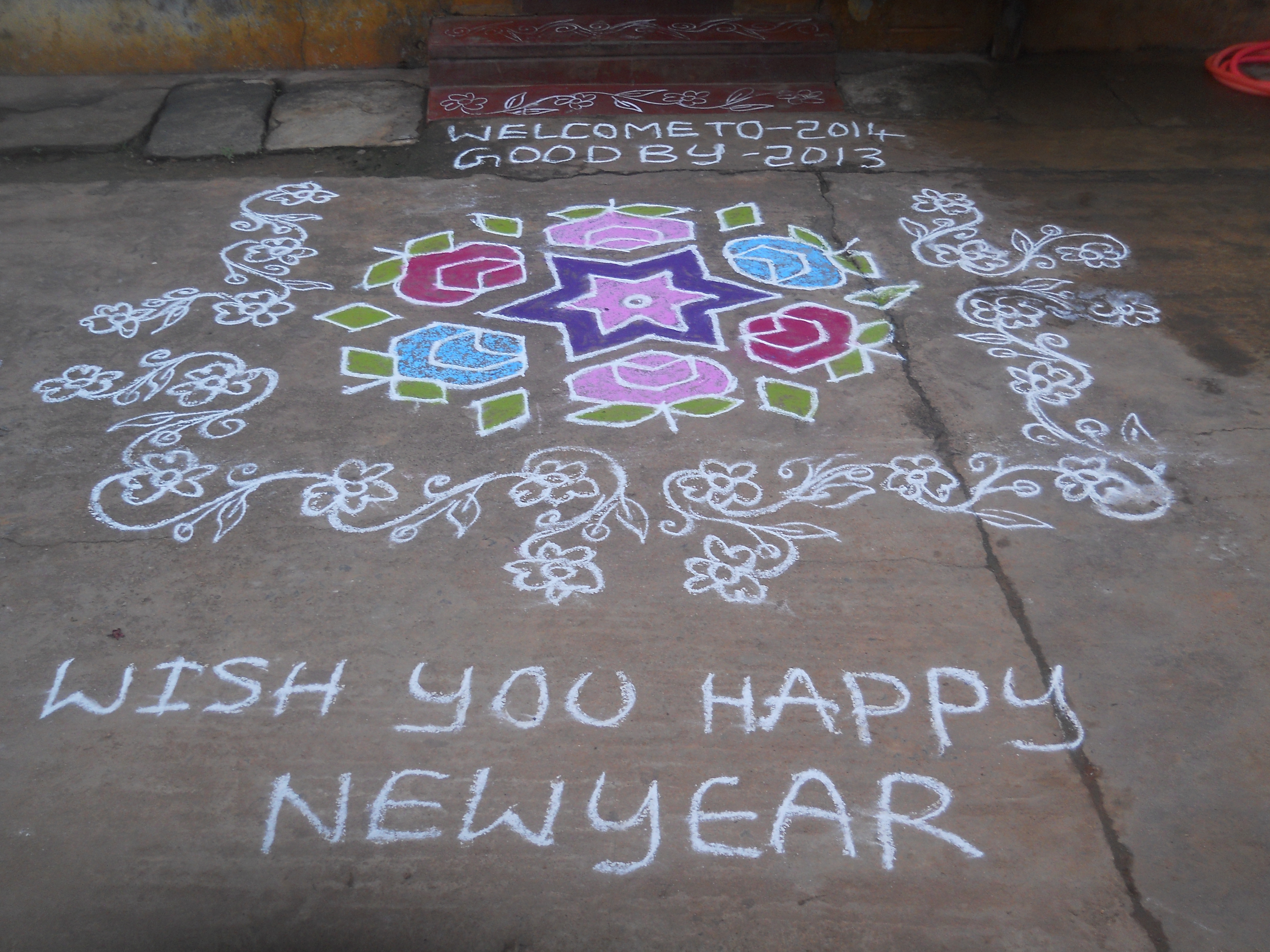 Wish You Happy New Year muggu 2014 at Vinjamoor, Nellore district, A.P, India.